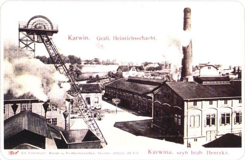 Colliery Jindřich in Karviná (Czech Republic) in 1902